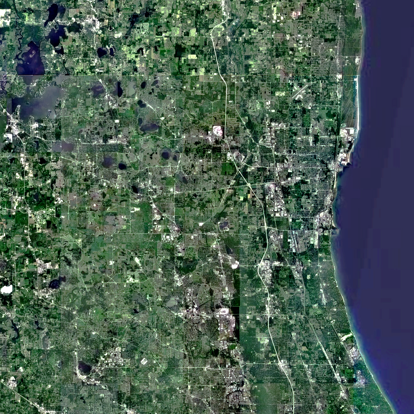 Satellite image of Lake county, Illinois